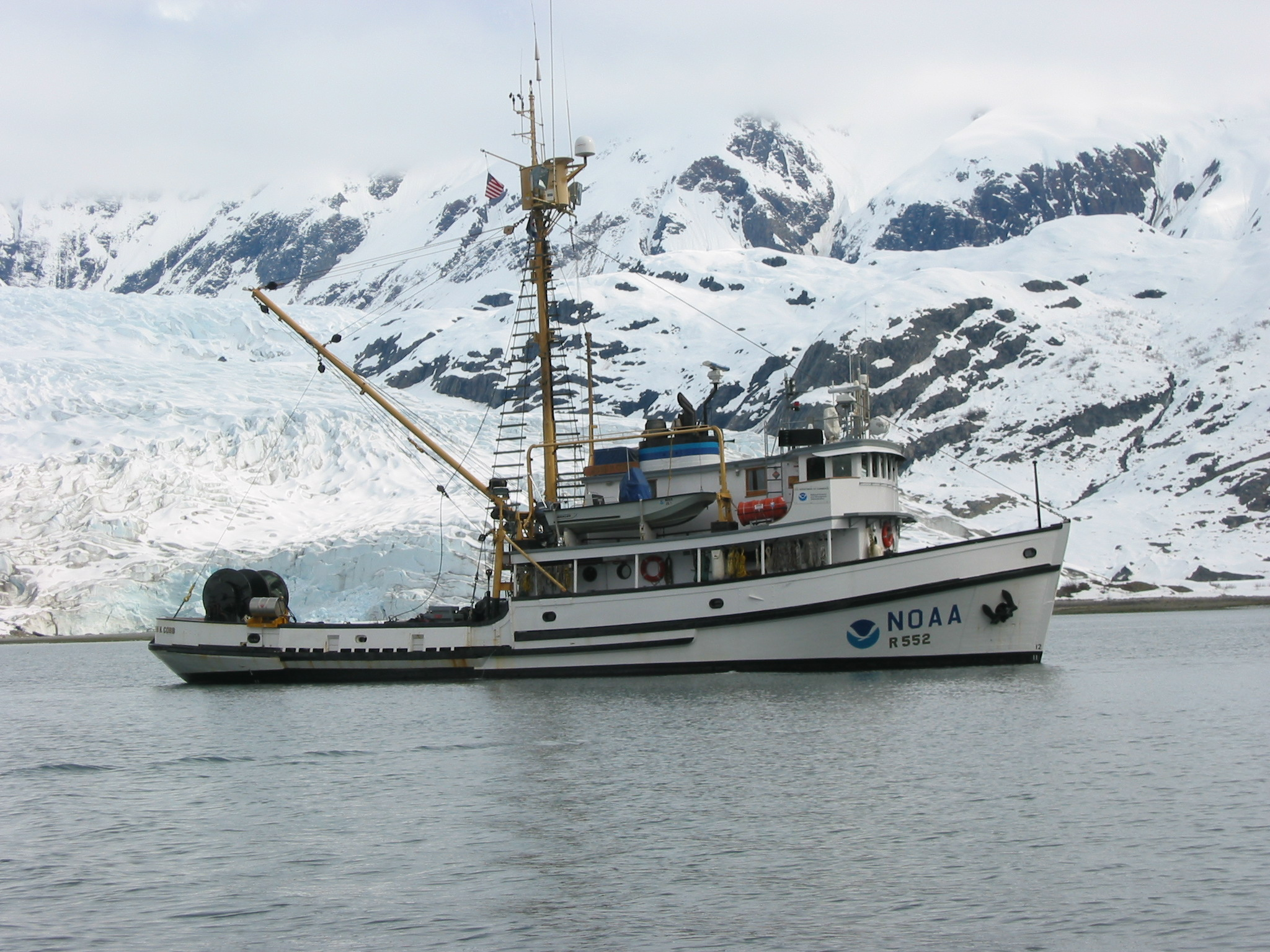 NOAA Ship John N. Cobb, R-552, in Glacier Bay, Alaska.